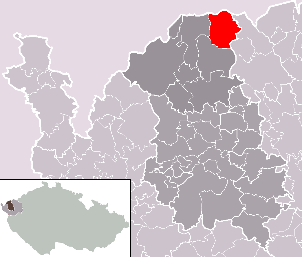 Location of Přebuz town within Sokolov District and administrative area of Kraslice as a Municipality with Extended Competence.